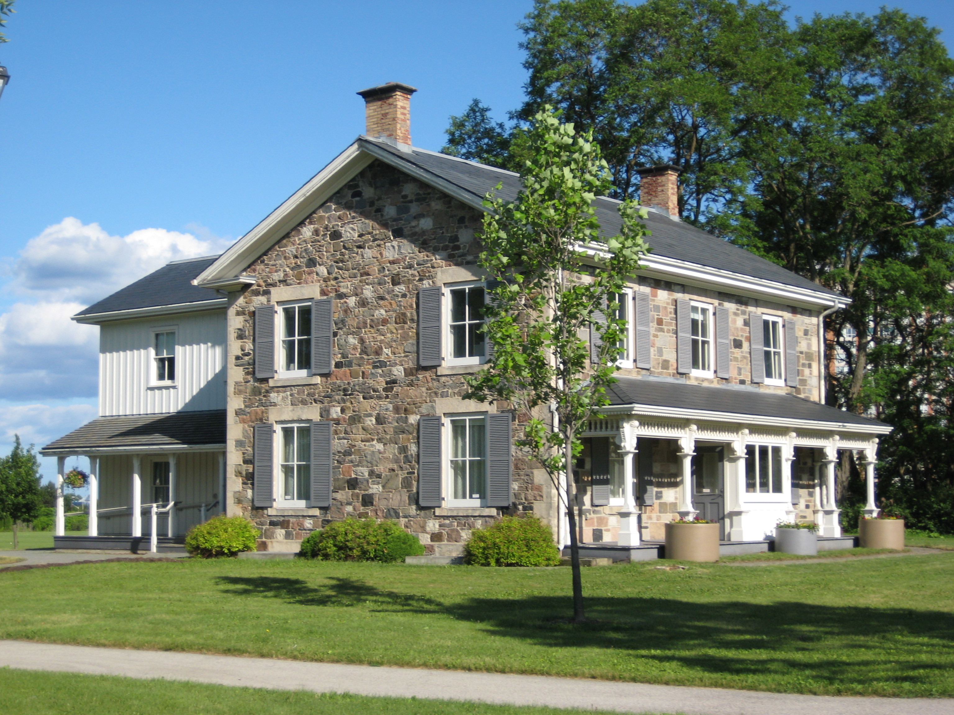 Elderslie